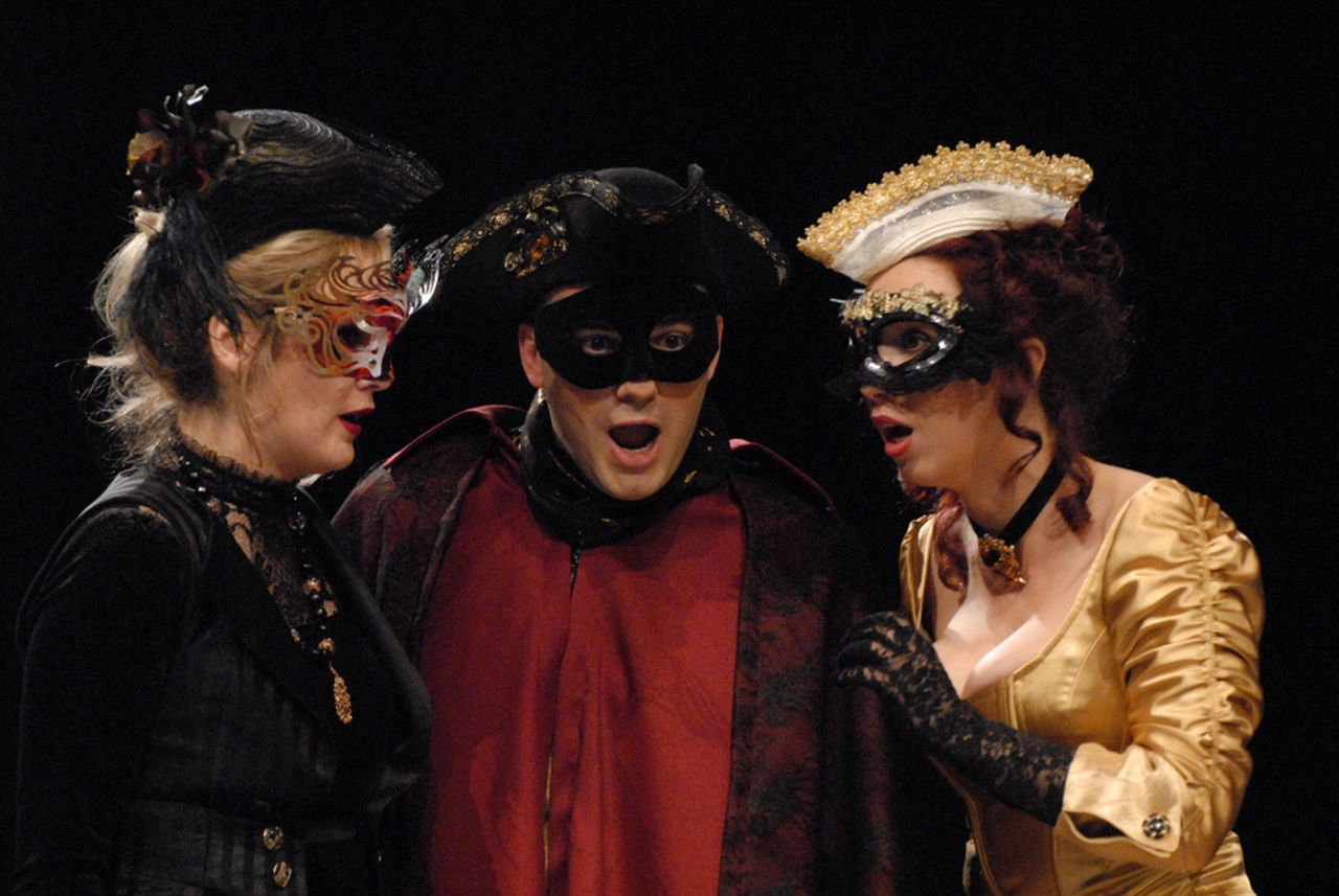 "Don Giovanni", Opera of SNT, Novi Sad, 2007/2008; Natalija Voronkina (soprano), Saša Štulić (tenor), Jelena Končar (mezzo-soprano) Srpski (latinica): "Don Đovani", Opera SNP-a, Novi Sad, 2007/2008; Natalija Voronkina (sopran), Saša Štulić (tenor), Jelena Končar (mecosopran) Српски (ћирилица): "Дон Ђовани", Волфганг Амадеус Моцарт, Опера СНП-а, Нови Сад, 2007/2008; Наталија Воронкина (сопран), Саша Штулић (тенор), Јелена Кончар (мецосопран)